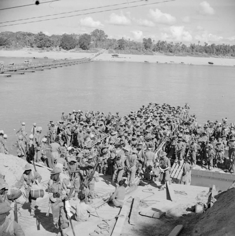 The British Army in Burma 1945 Men of the 11th East African Division come ashore at Kalewa having just crossed the Chindwin River by ferry, January 1945.